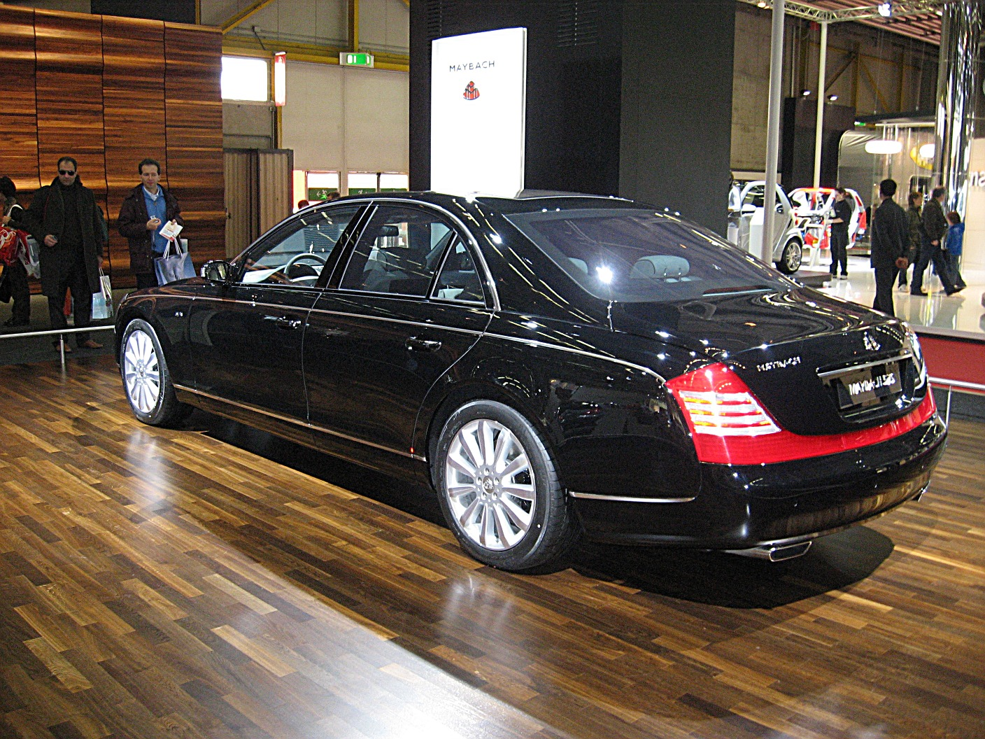 Subject:Maybach 57 Author:Luc106 Date:December 13th, 2007 Event:Motor Show Bologna 2007 Place/Country: Bologna, Italy I release all rights in the public domain.